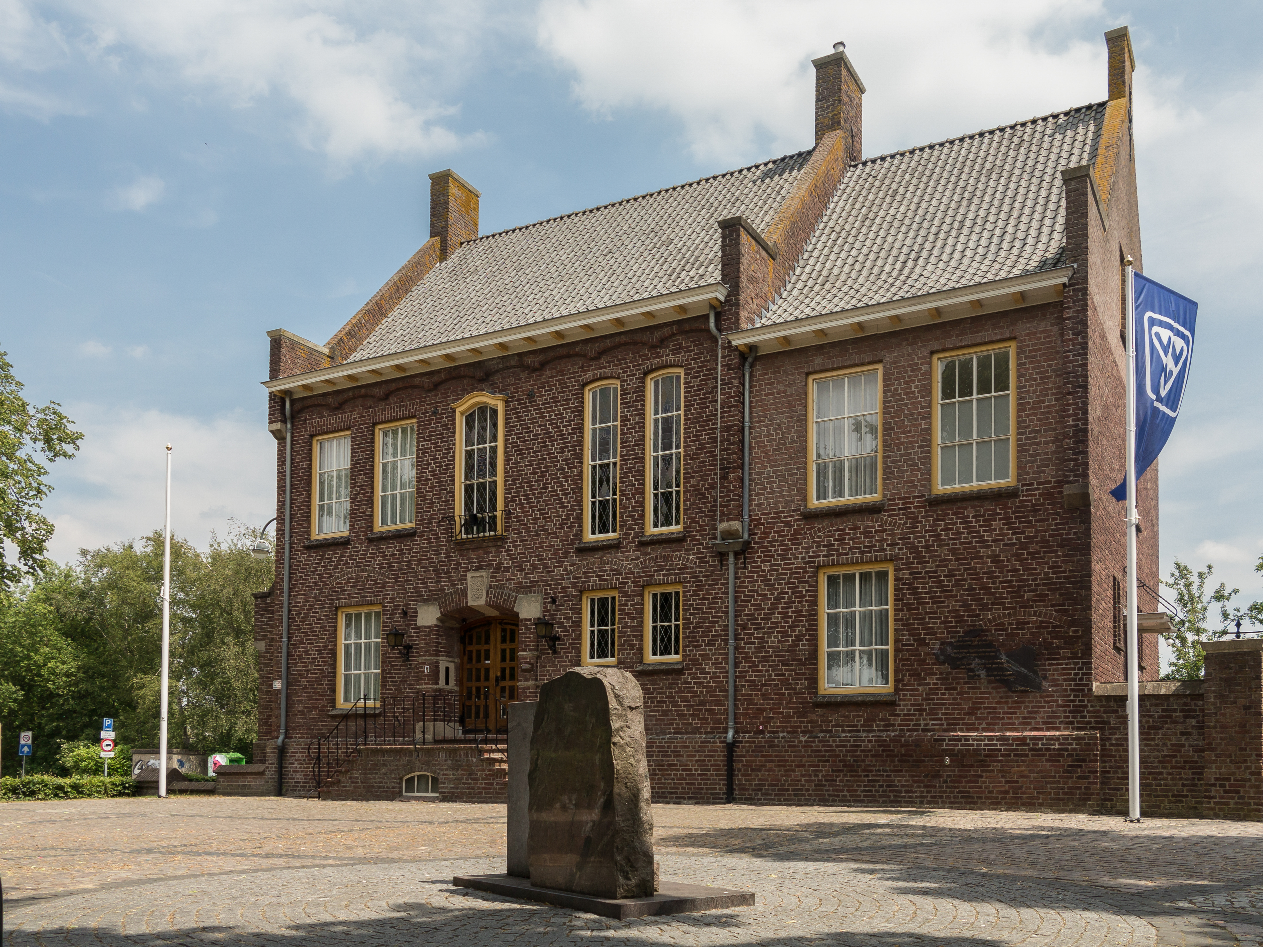 Chaam, townhall